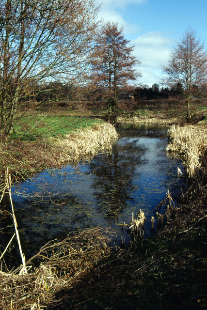 Old Court Moat, Llantilio Crossenny. The moat encircles a patch of land where The Old Court once stood.